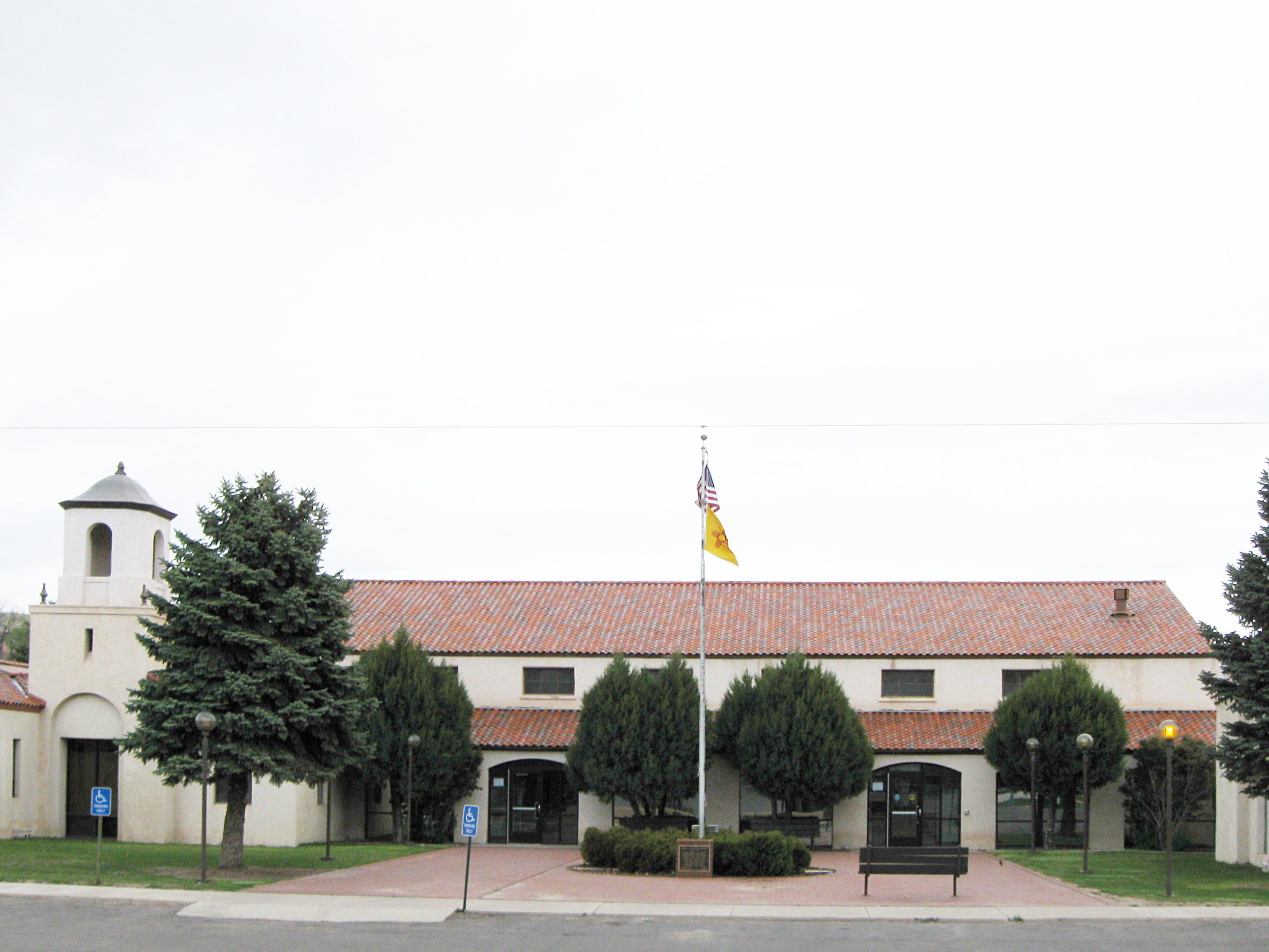 Cibola County (New Mexico) Court House, located at 515 West High Street (corner of High Street and Iron Avenue) in Grants, New Mexico.